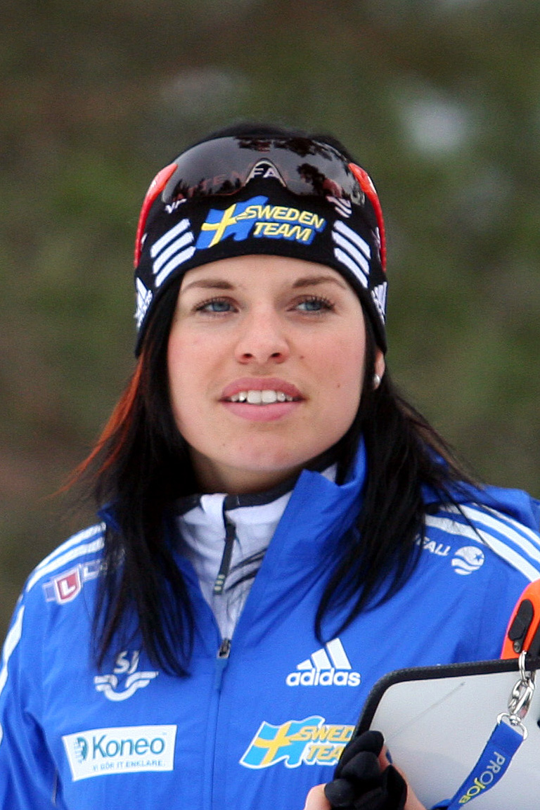 Högberg on the track in Oslo 2010 (Pursuit)